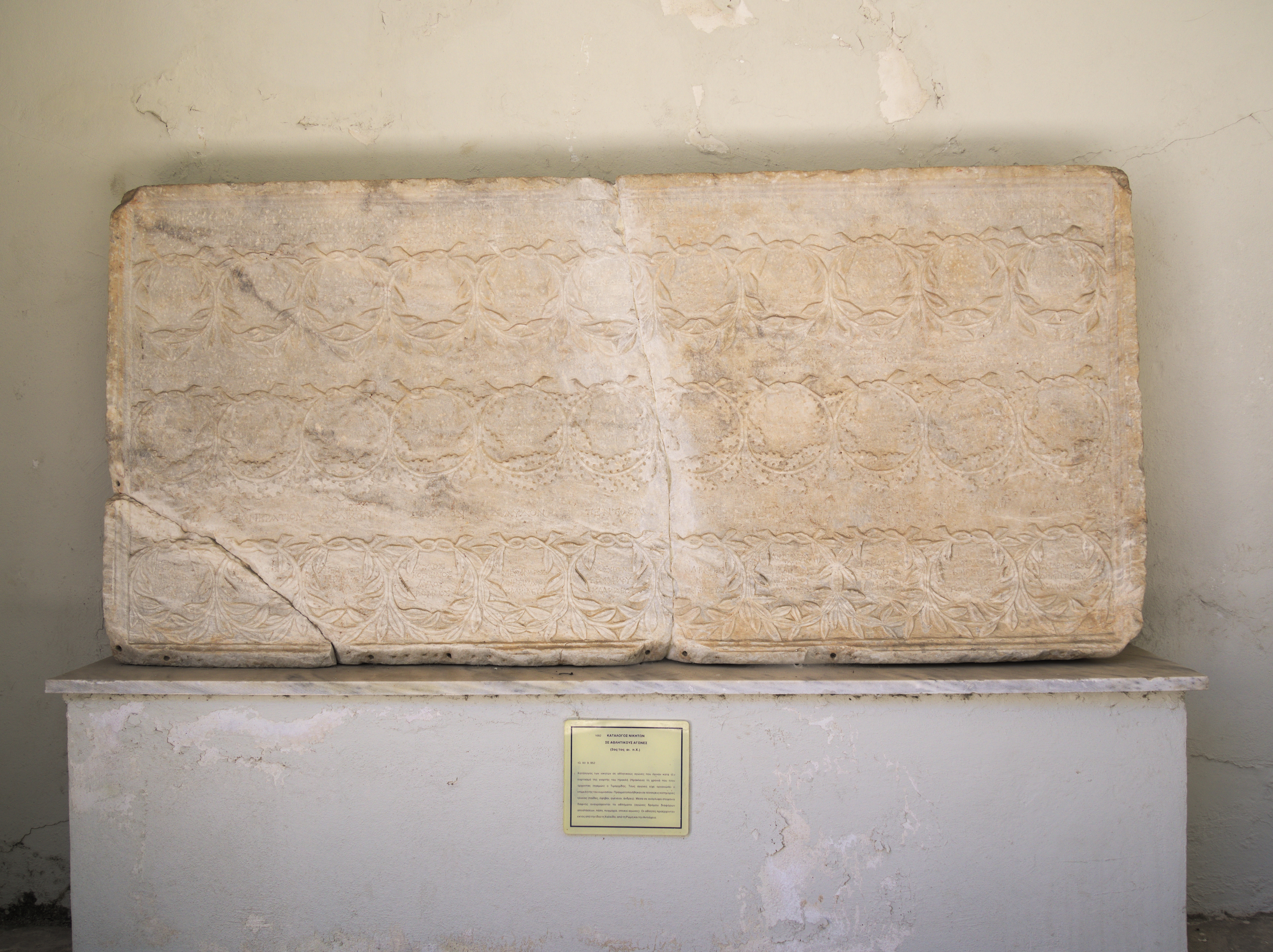 A list of winners in athletic games, during the feast of Herakleia, dating from 2nd or 1st century BC, when the archon was Timarchidis. In the laurel wreaths are written the names of the winners. Now is exhibited at the Archaeological museum of Chalkida.